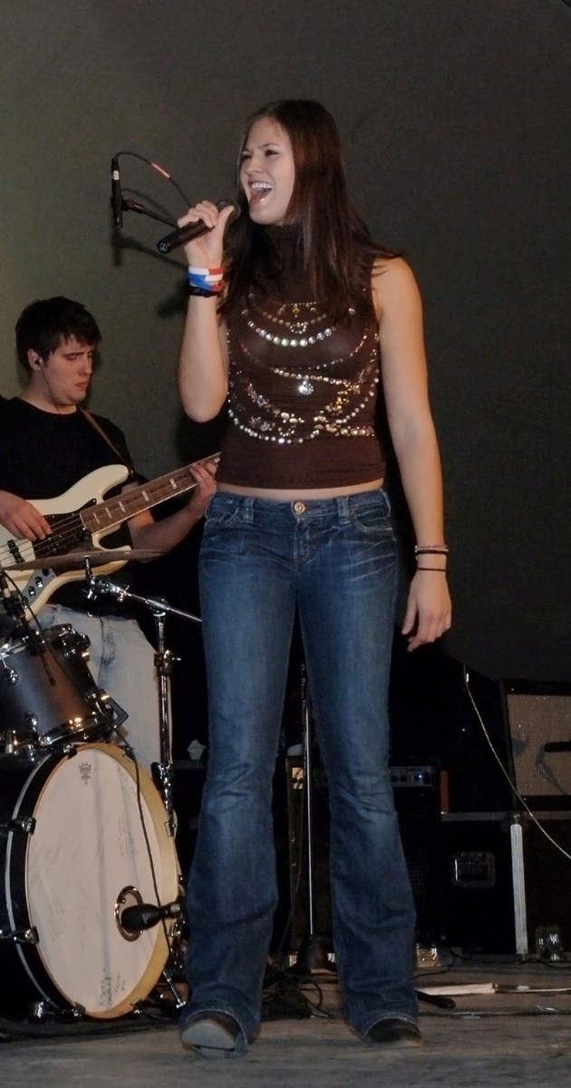 Ayla Brown on stage.